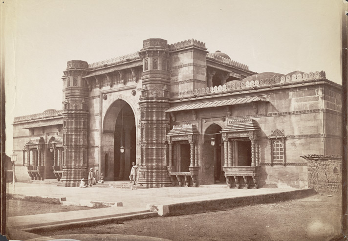 Photograph of the mosque of Rani Rupmati at Ahmadabad in Gujarat. The architecture of Ahmedabad reveals a fine synthesis of Hindu and Muslim elements, such as in the mausoleum complex of Rani Rupmati about whose life little is known. It is said that she may have been one of the chief queens of Ahmad Shah.